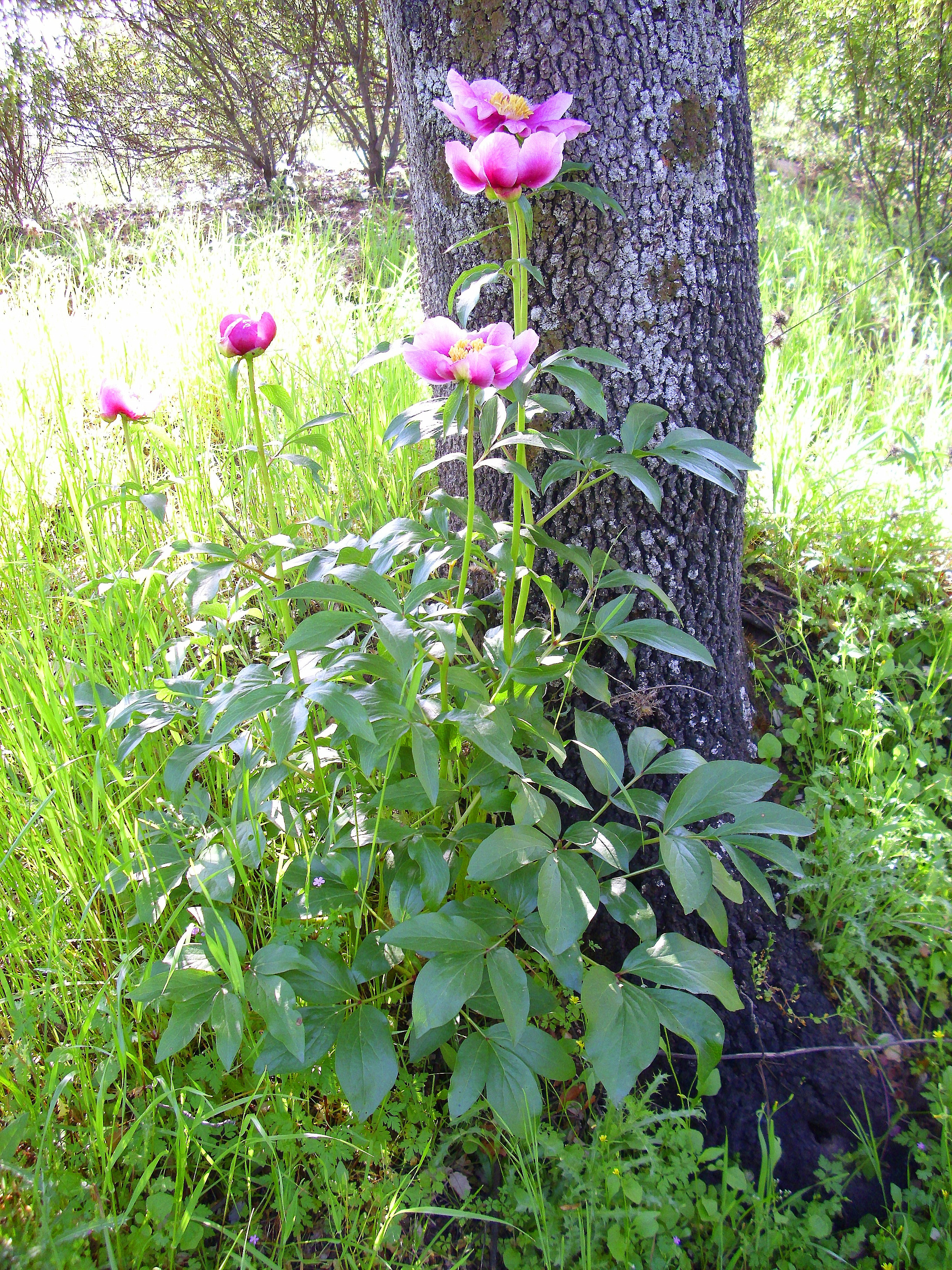 Paeonia broteri habit, Sierra Madrona, Spain